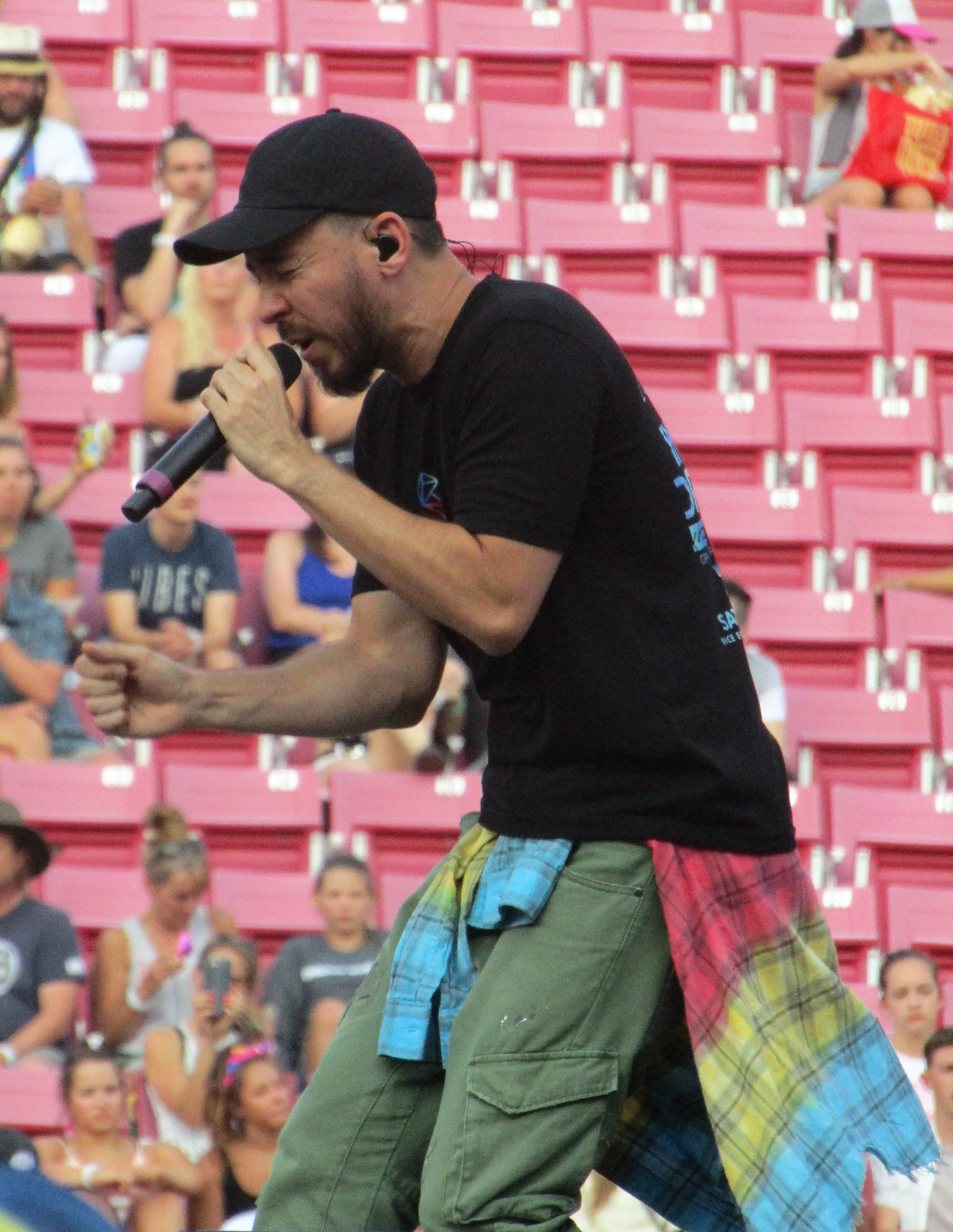 Mike Shinoda performing at LoveLoud 2018.